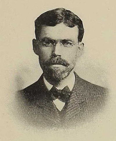 Photo of Charles Kenneth Leith from the 1904 University of Wisconsin-Madison yearbook.